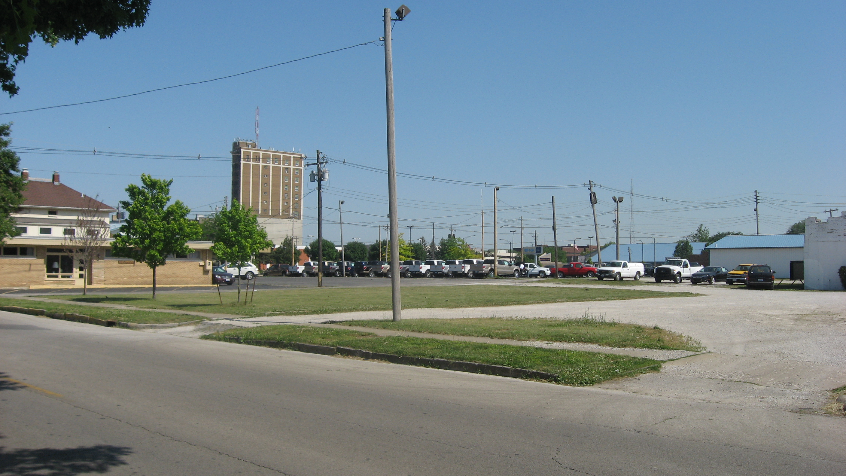 Site of the Building at 210-212 West North Street in Danville, Illinois, United States. Listed on the National Register of Historic Places in 2000, it has been destroyed, but the landmark designation has not yet been withdrawn.